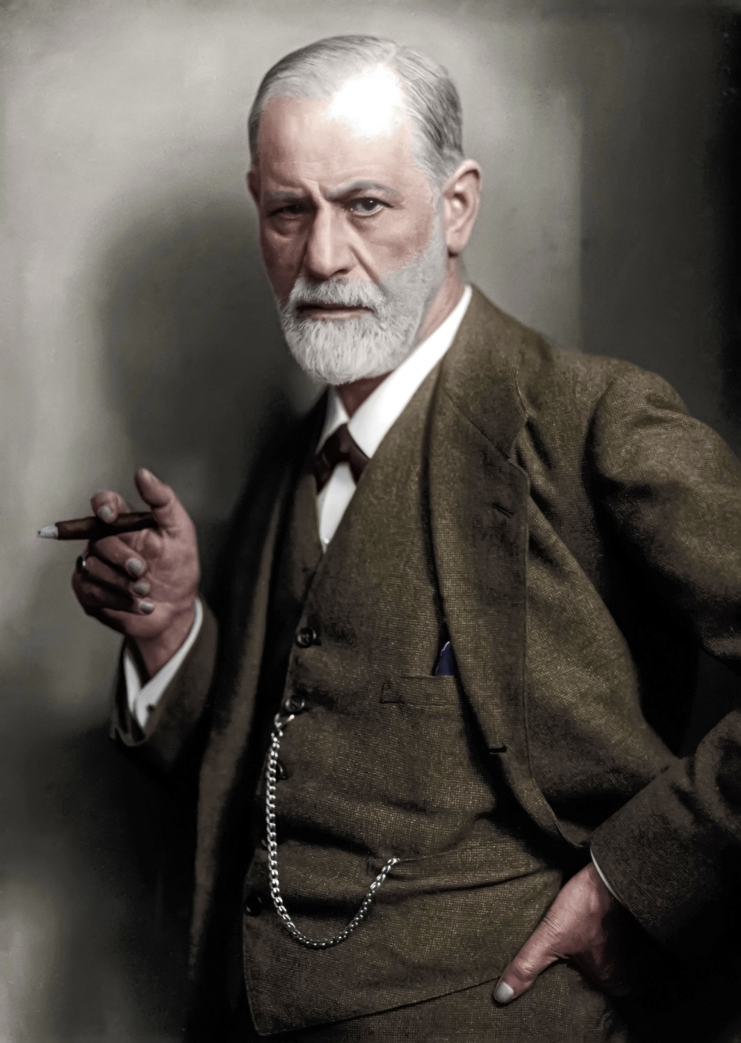 Sigmund Freud colorized portrait.